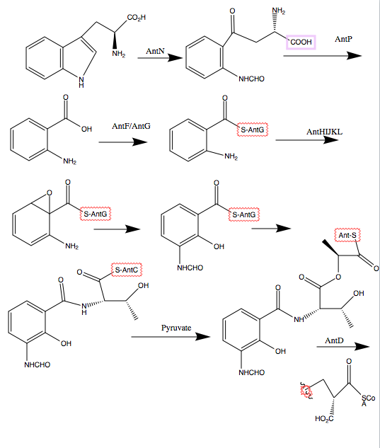 Part 1